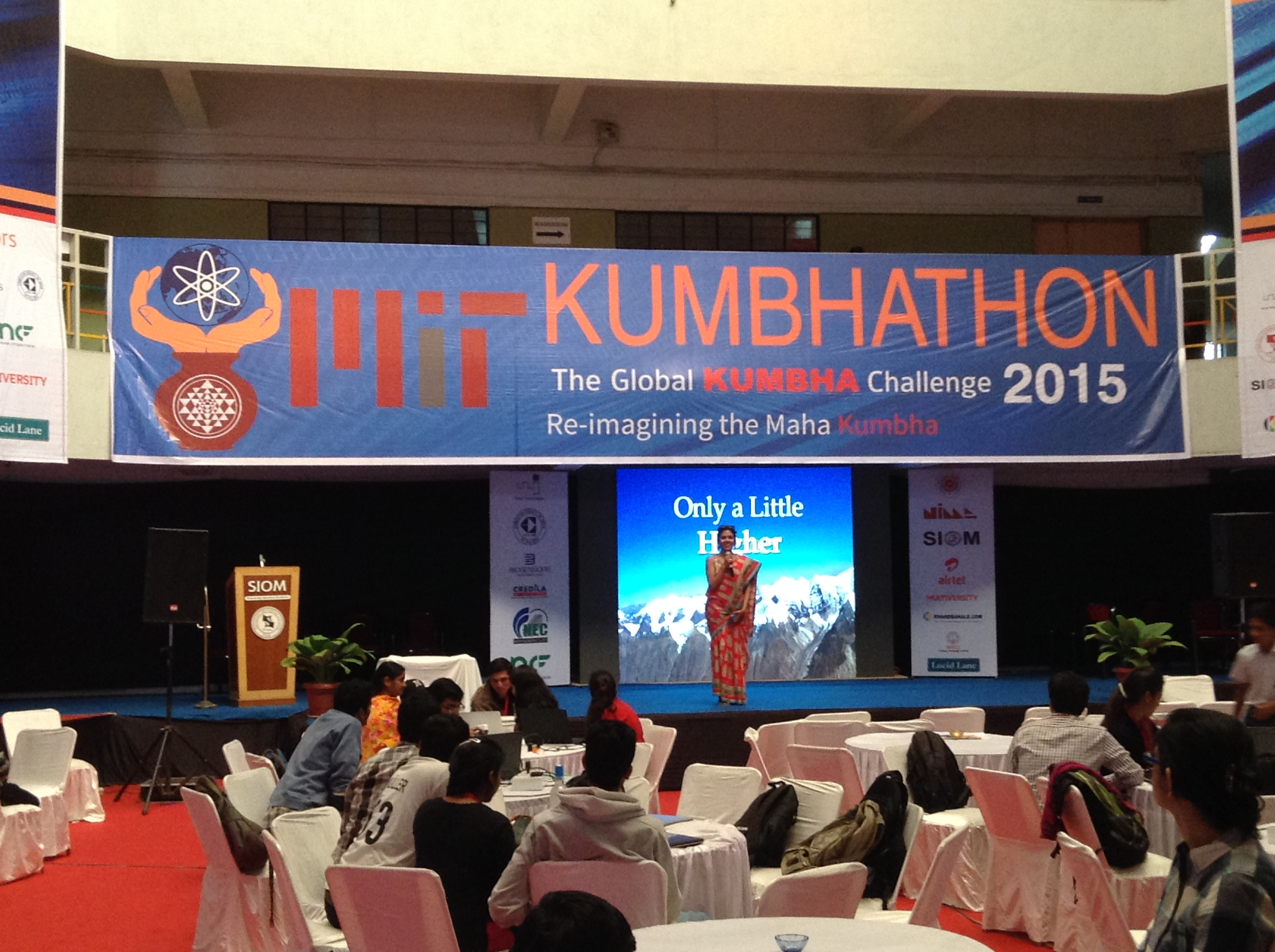 Mountaineer Krishna at MIT Media Labs Kumbathon